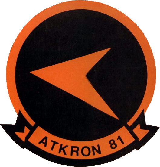 Emblem of the United States Navy Attack Squadron 81 (VA-81) "Sunliners".